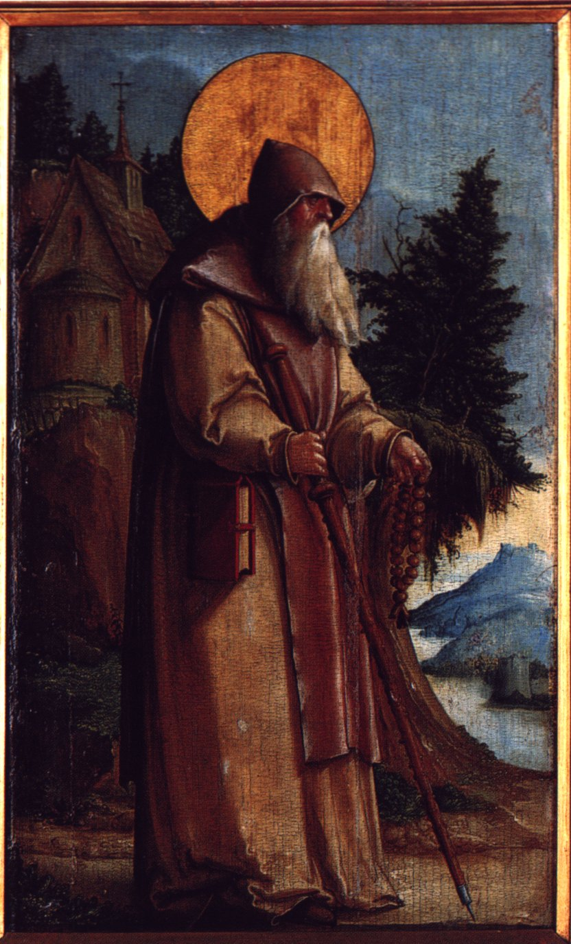 Reredos of the former side altars of St. Martins Church, standing wing: Saint Paul of Thebes as a hermit Eingescannt aus: Anna Moraht-Fromm und Hans Westhoff: Der Meister von Meßkirch – Forschungen zur südwestdeutschen Malerei des 16. Jahrhunderts, Ulm, 1997, S. 161 links